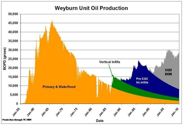 Graphic representation of the water ands CO2 floods of the Weyburn oil resevoir